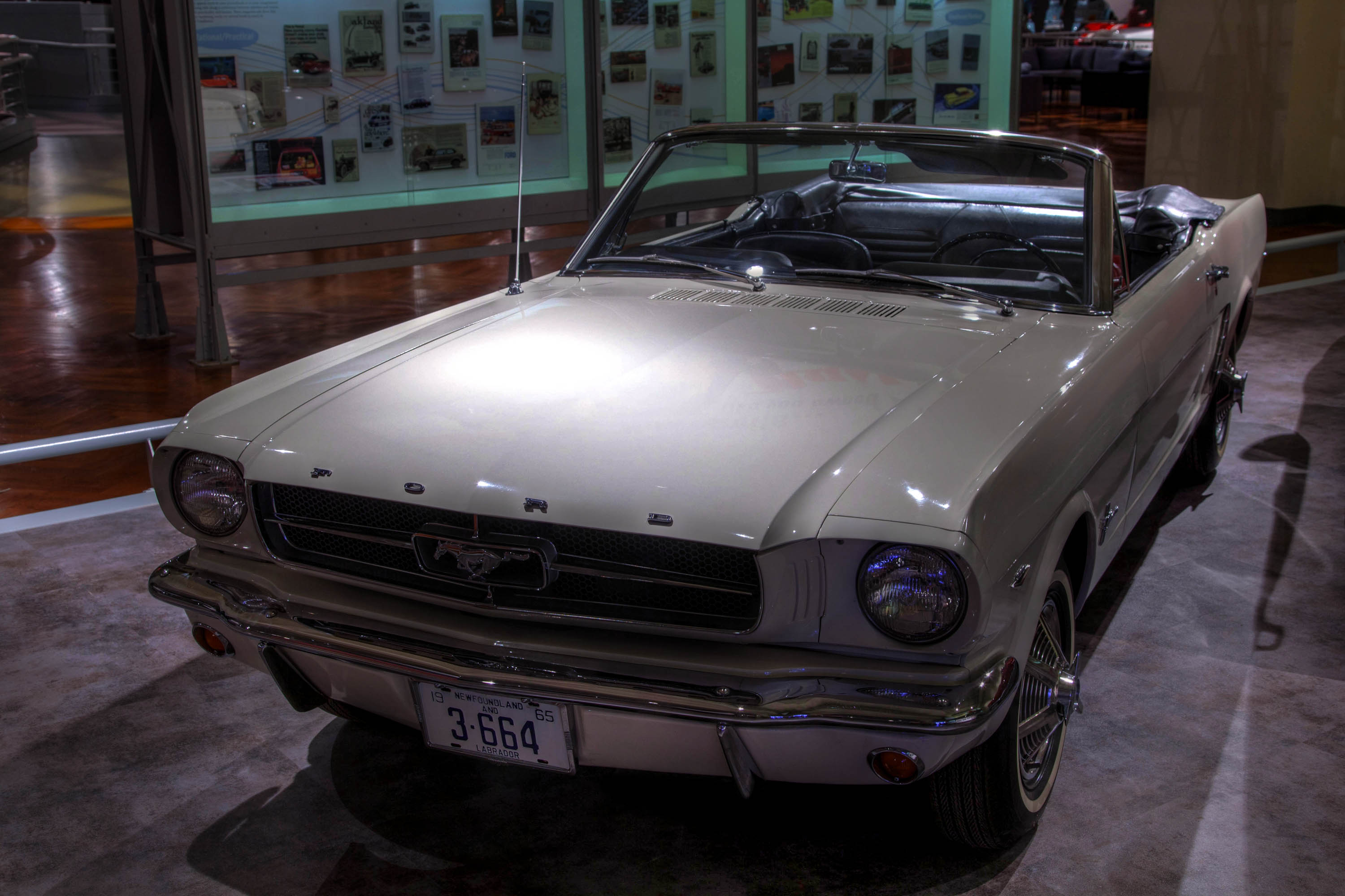 This is the first Mustang produced. It was sold to Stanley Tucker of St. John's, Newfoundland, Canada on April 14, 1964 and is actually a 1965 model. The Mustang was the automobile that touched off the entire "pony car" craze of the 1960s, and was the first automobile ever to win the Tiffany Award for Excellence in American Design.